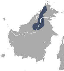 Bornean Smooth-tailed Treeshrew (Dendrogale melanura) range